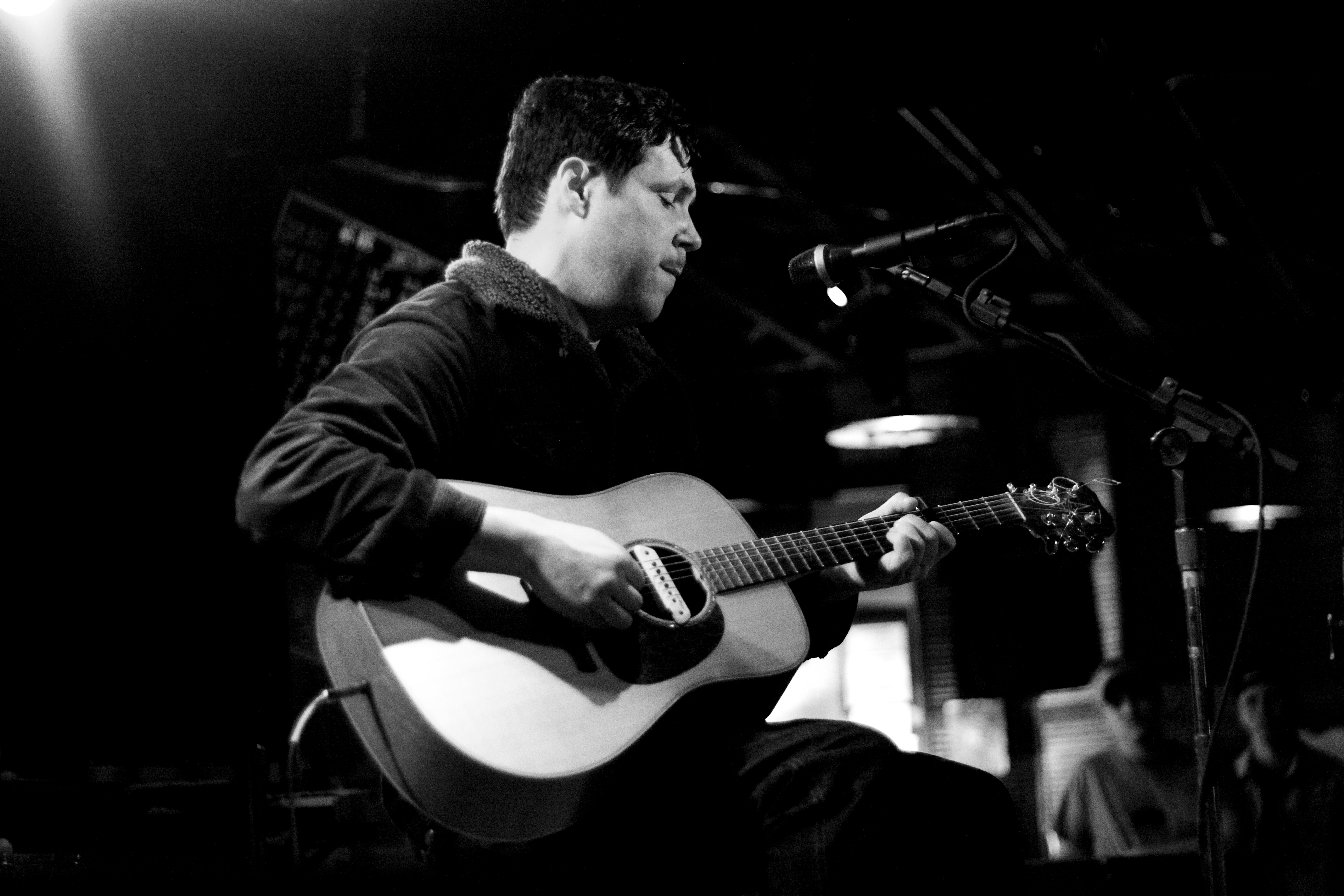 Damien Jurado performs at Dan's Silverleaf in Denton, TX - 04/28/2009